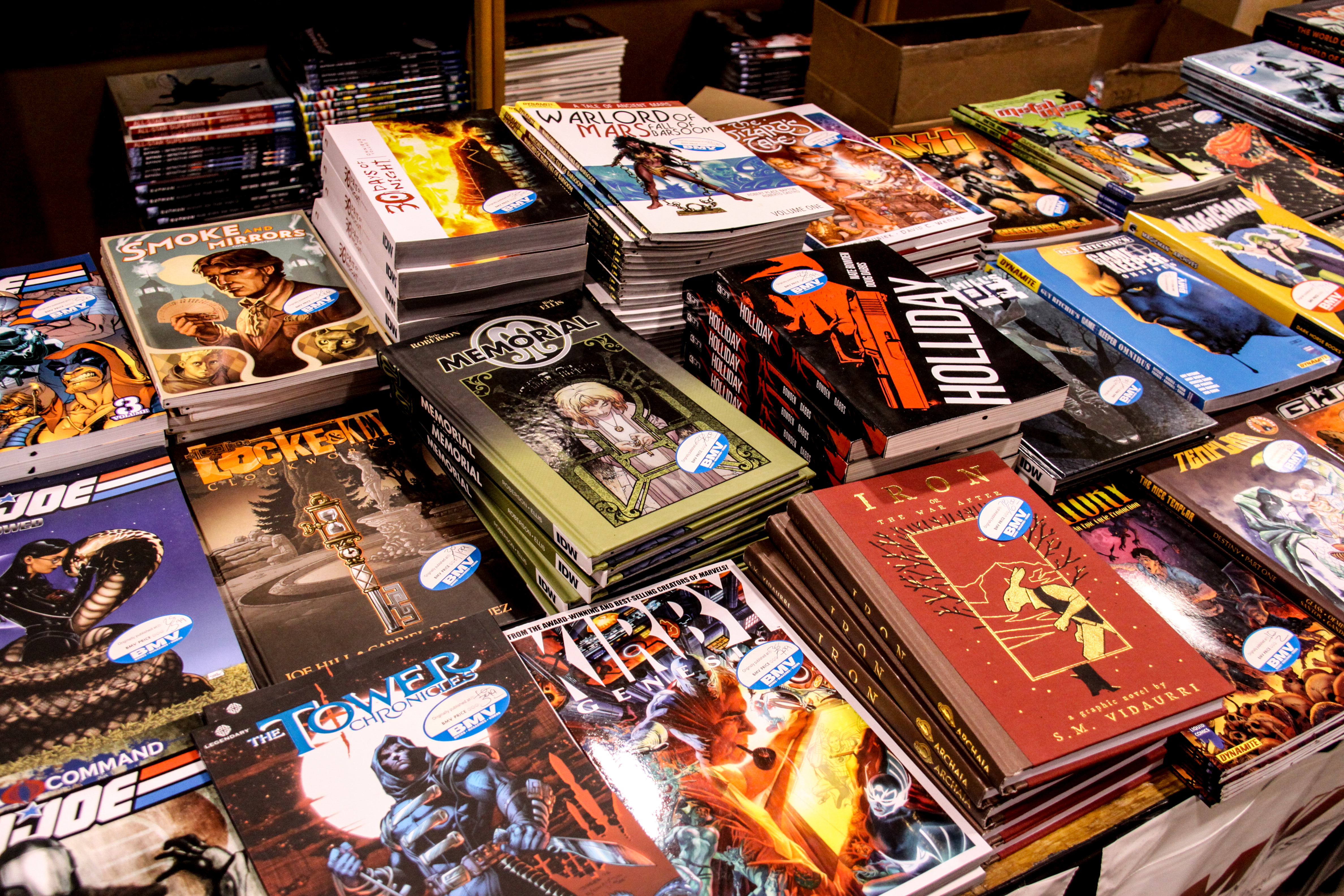 Fan Expo Canada in Toronto in 2013.